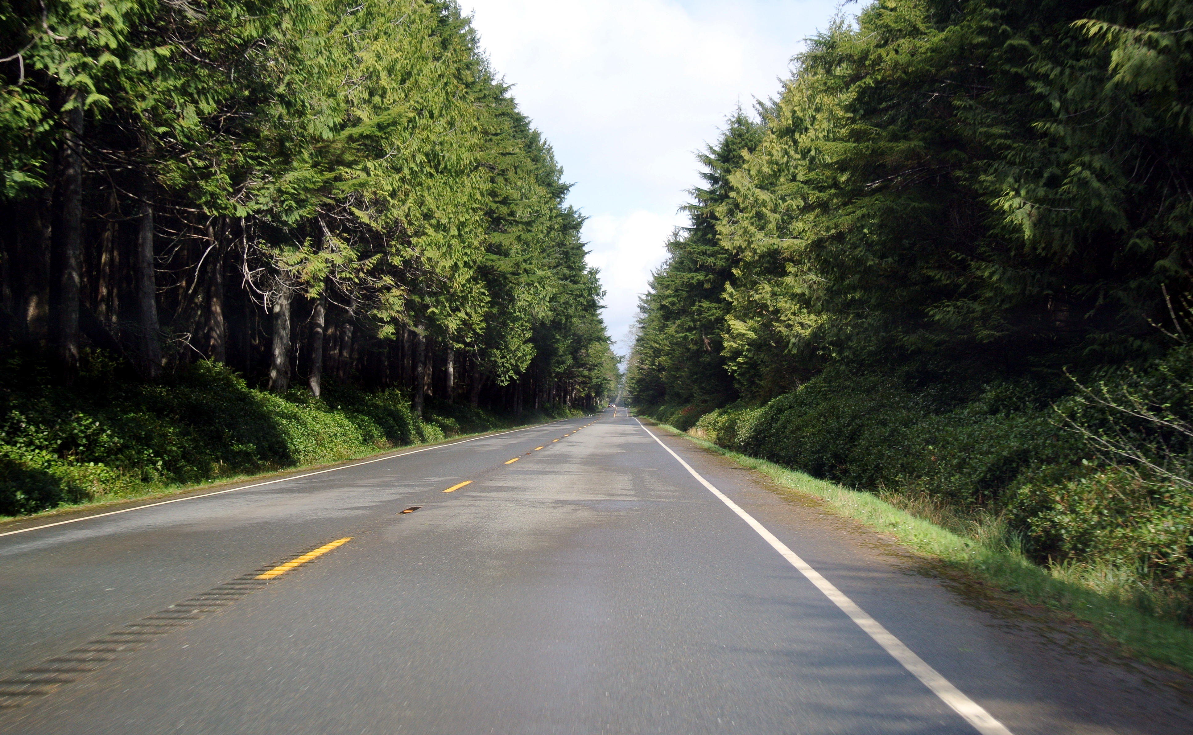 US 101 in Jefferson County, Washington, Olympic National Park